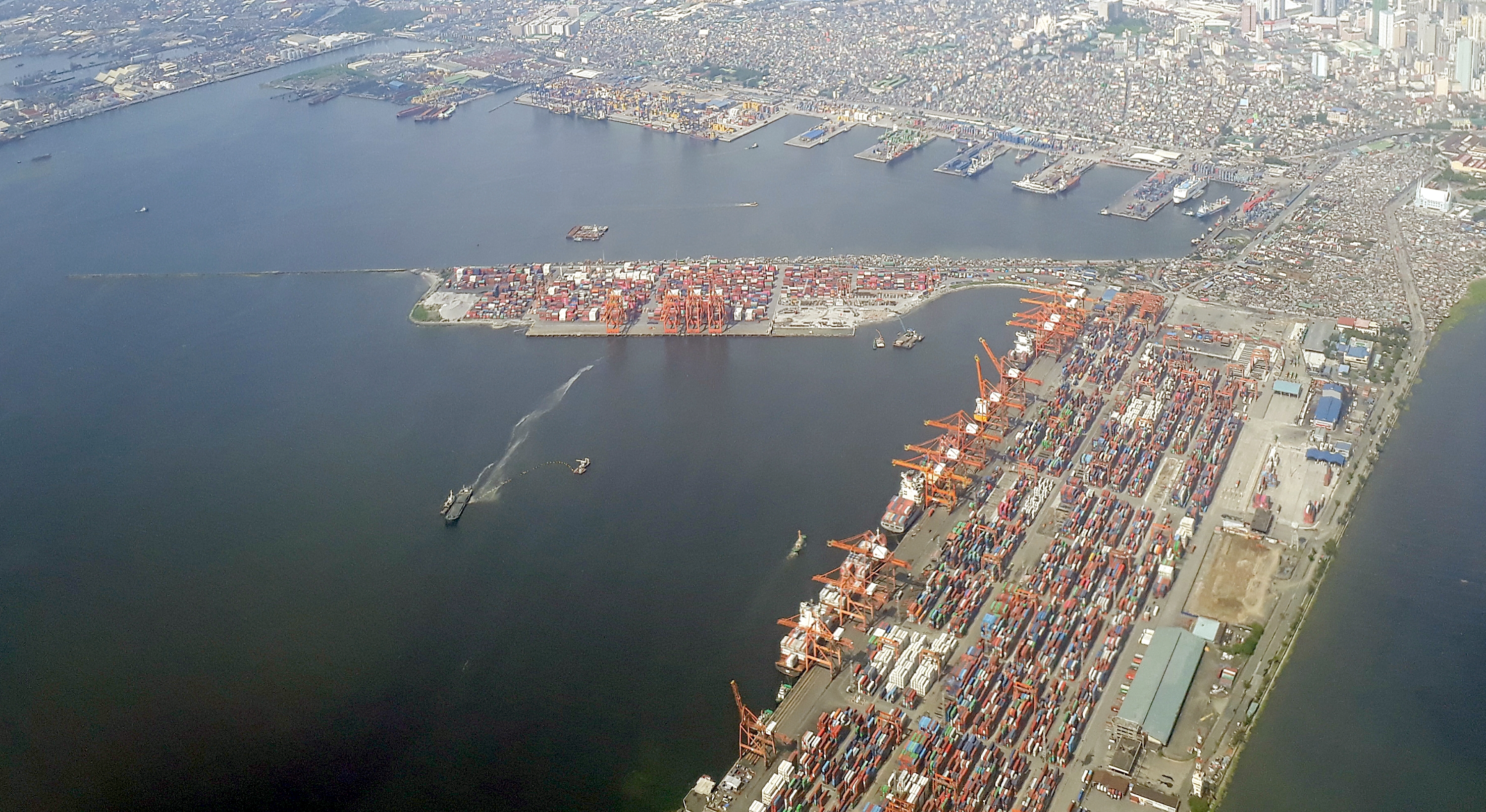 An aerial view of the port of Manila in September 2019.